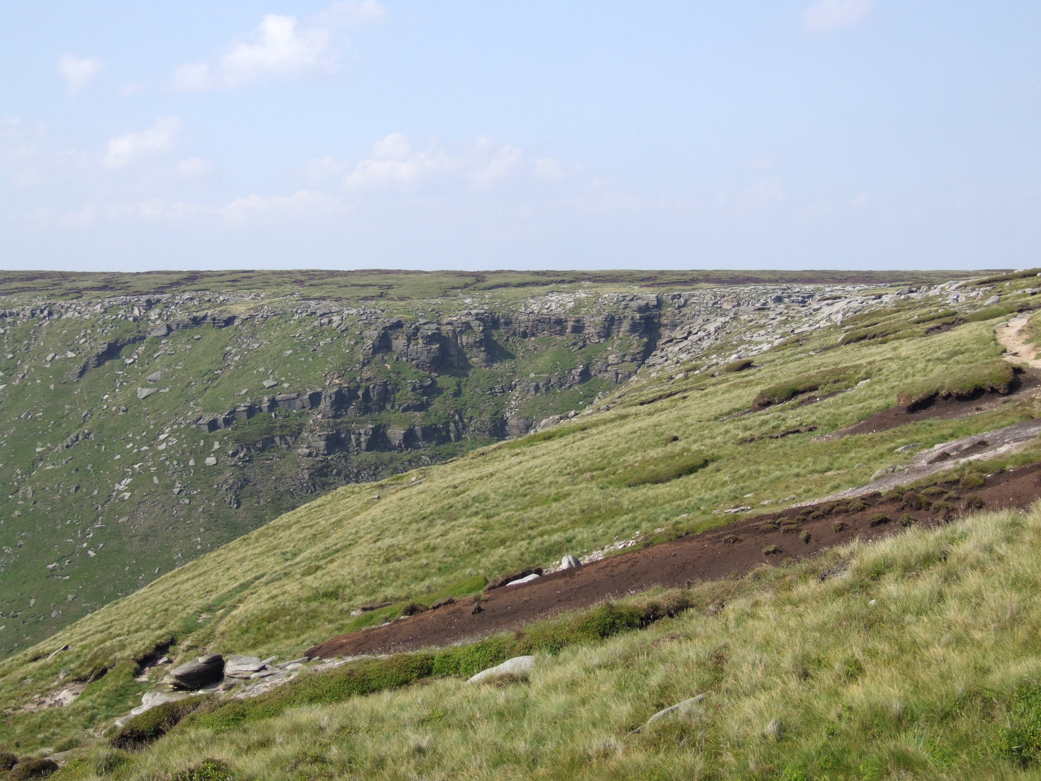 Kinder Scout is a moorland plateau (and mountain of over 600m) in the Derbyshire Peak District in the United Kingdom.. Kinder Downfall. From the south.